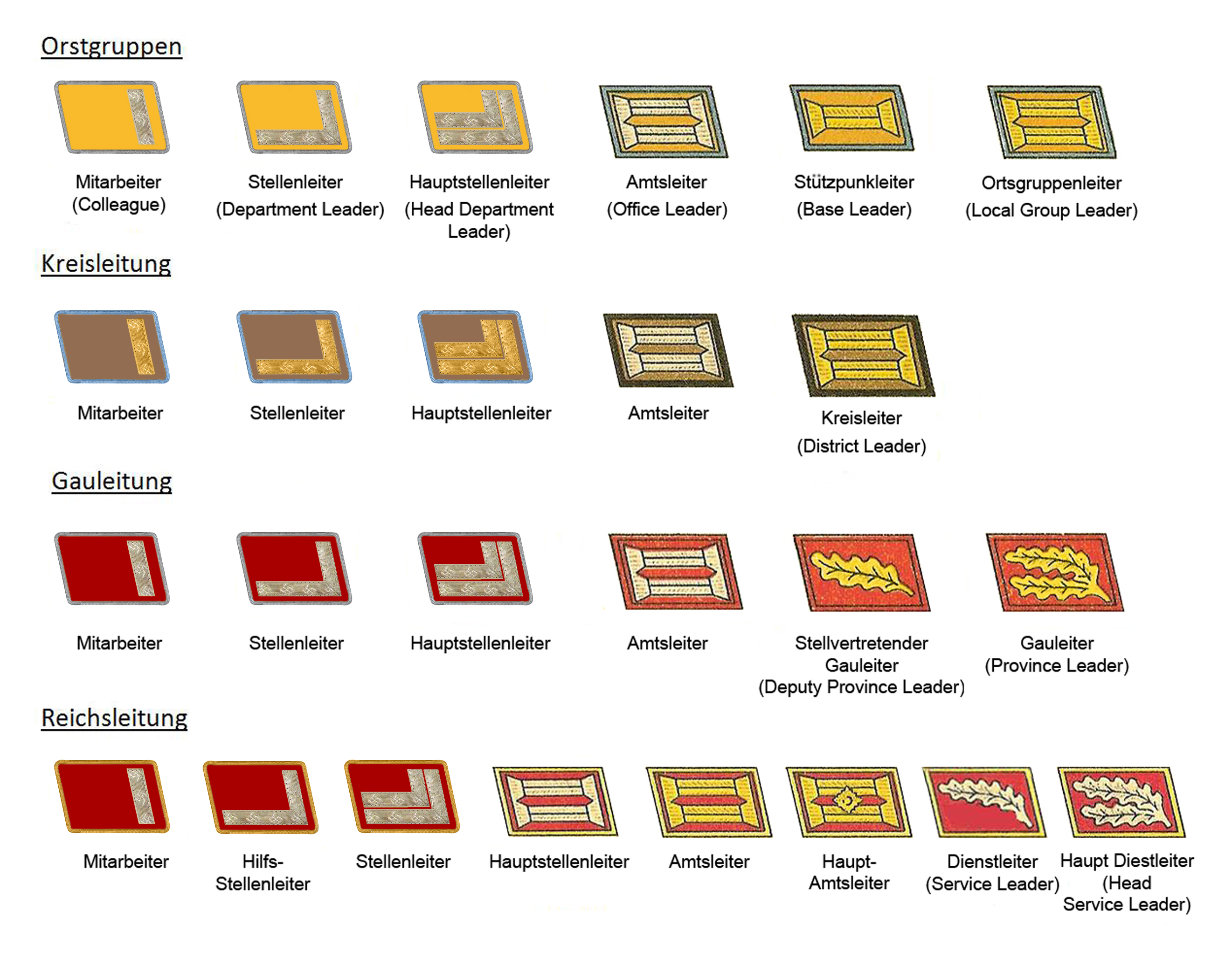 Early Nazi Party rank insignia (1930)